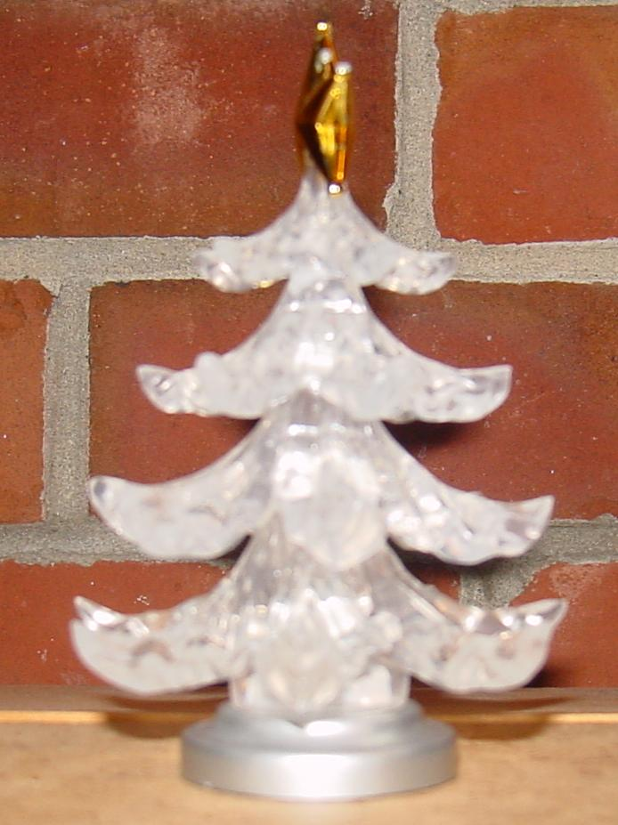 A USB Christmas Tree, a type of USB Decoration.